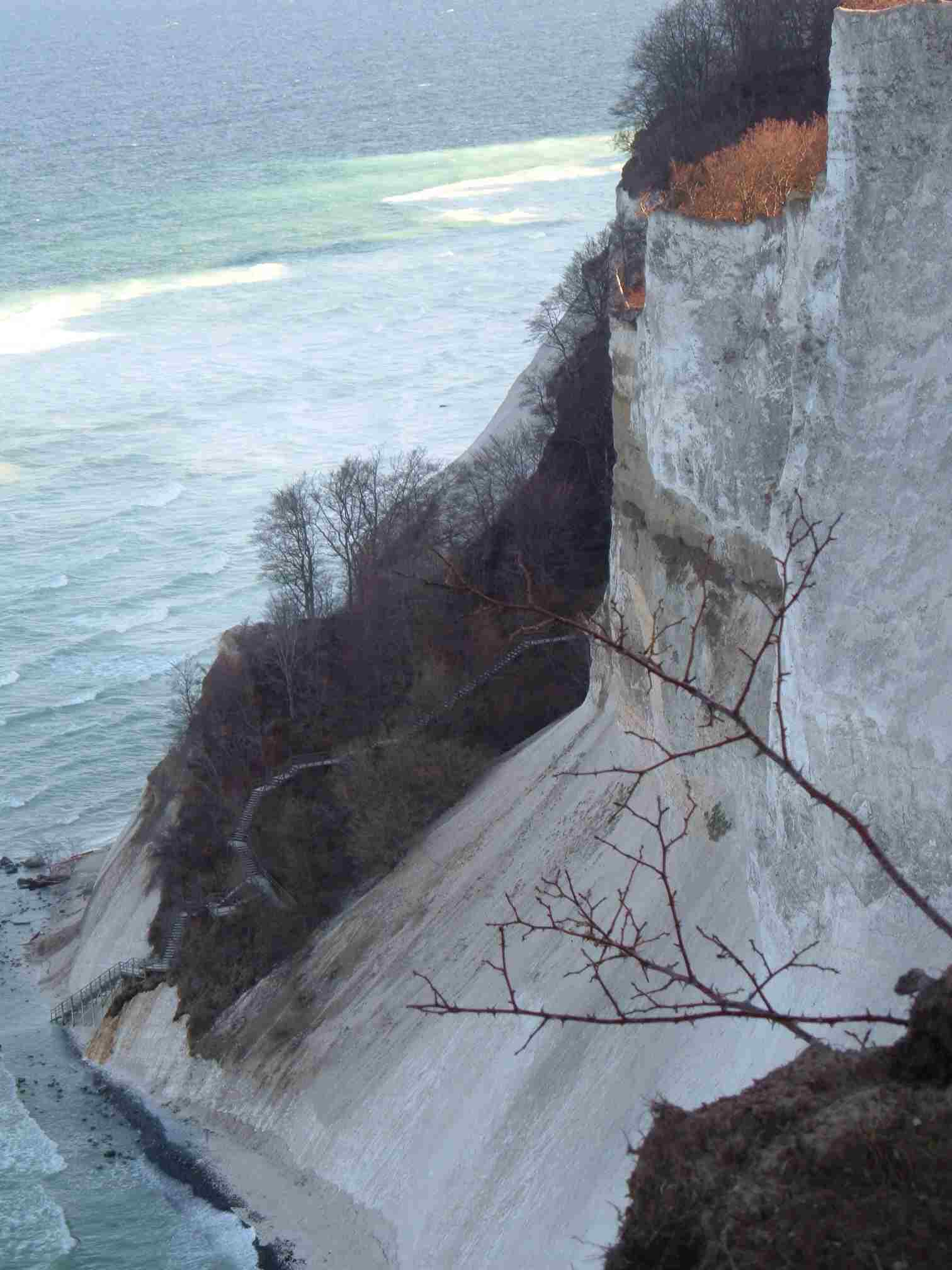 View of beach, cliffs and steps to beach at Møns Klint, on the island of Møn, Denmark. Spring 2006. Taken by contributor.